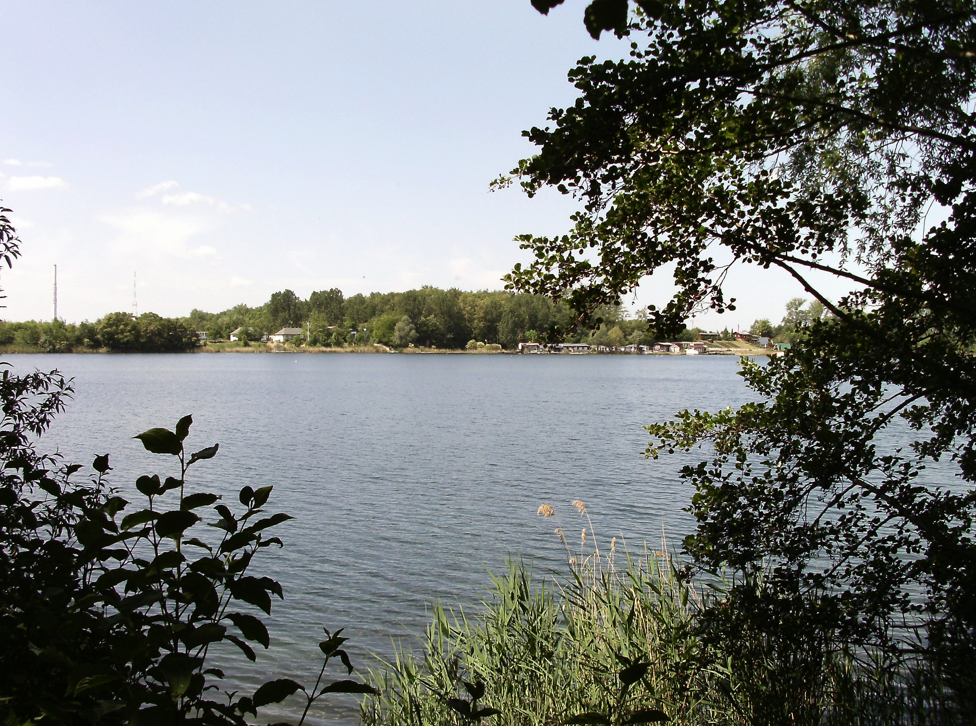 Hufeisensee ("horseshoe lake") in Halle/Saale from the south-east